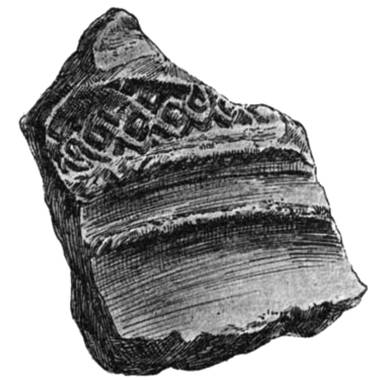 Drawing of a decorated neck of a ceramic container, found in 1897 on the archaeological site of Castro da Cola, in the Ourique municipality, in Portugal. This image was published in the work "O Archeologo Português", volume XXIX, of 1933, provided by Direcção Geral do Património Cultural.